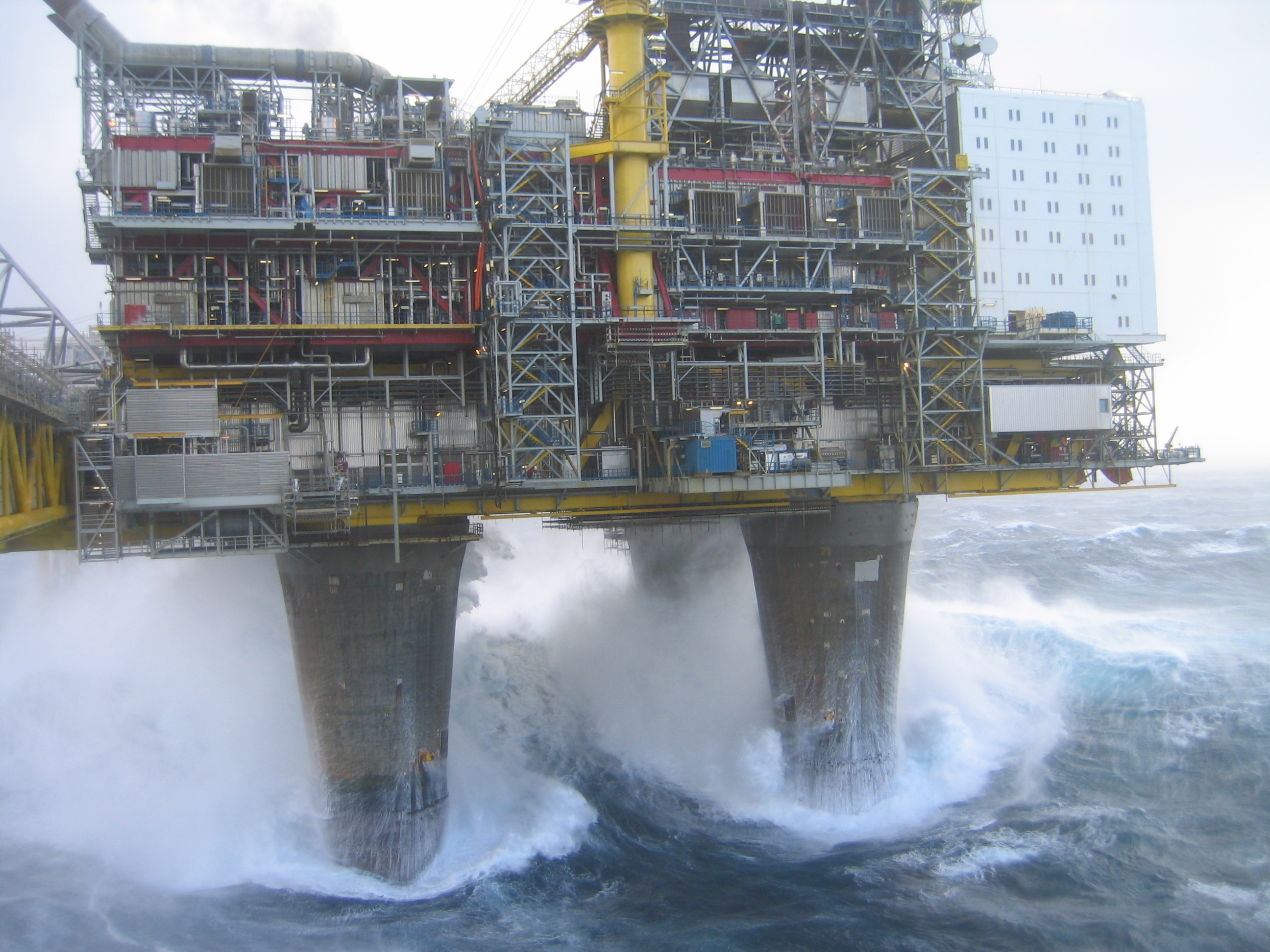 The Oseberg A Condeep platform in the North Sea.